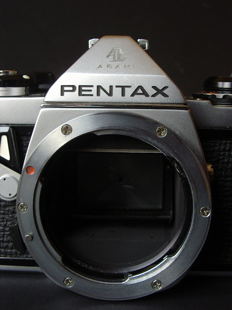 First version of K-mount. Pentax ME camera.